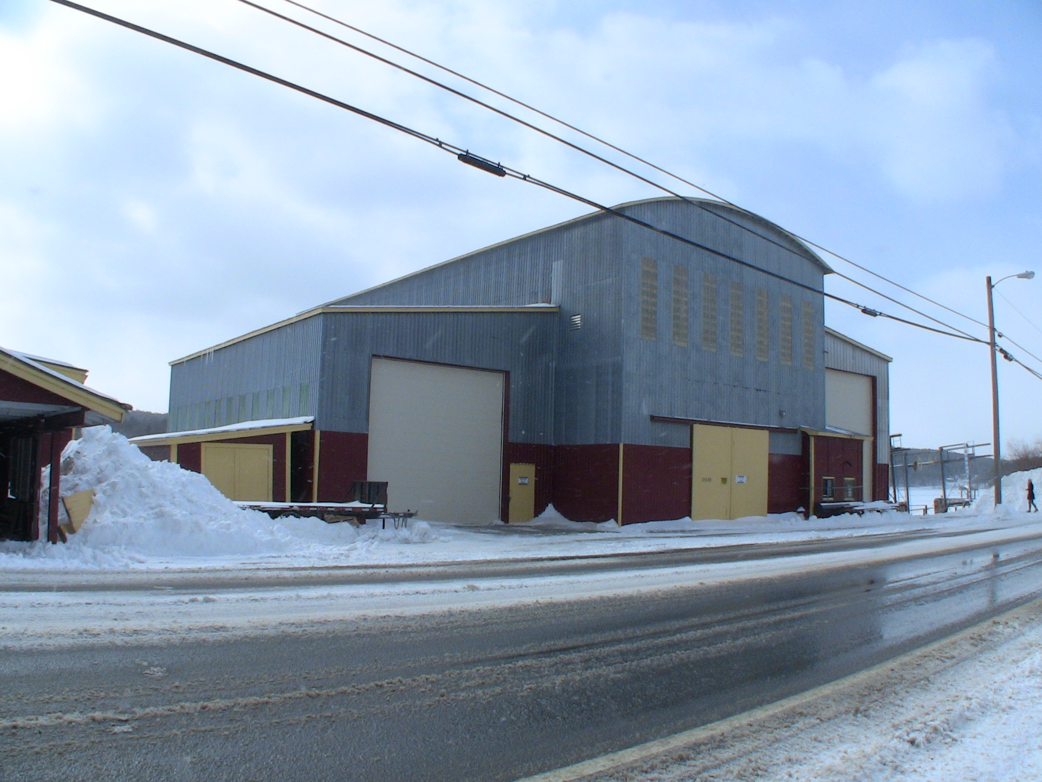 The main building where ships are built and repaired in Dayspring, Nova Scotia.